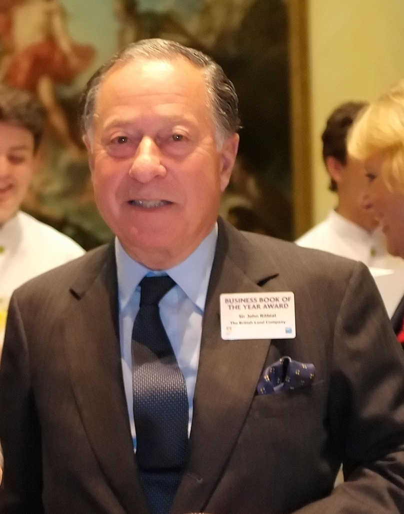 Sir John Ritblat, Honorary President at The British Land Company PLC at the FT Goldman Sachs Business Book of the Year Award 2011